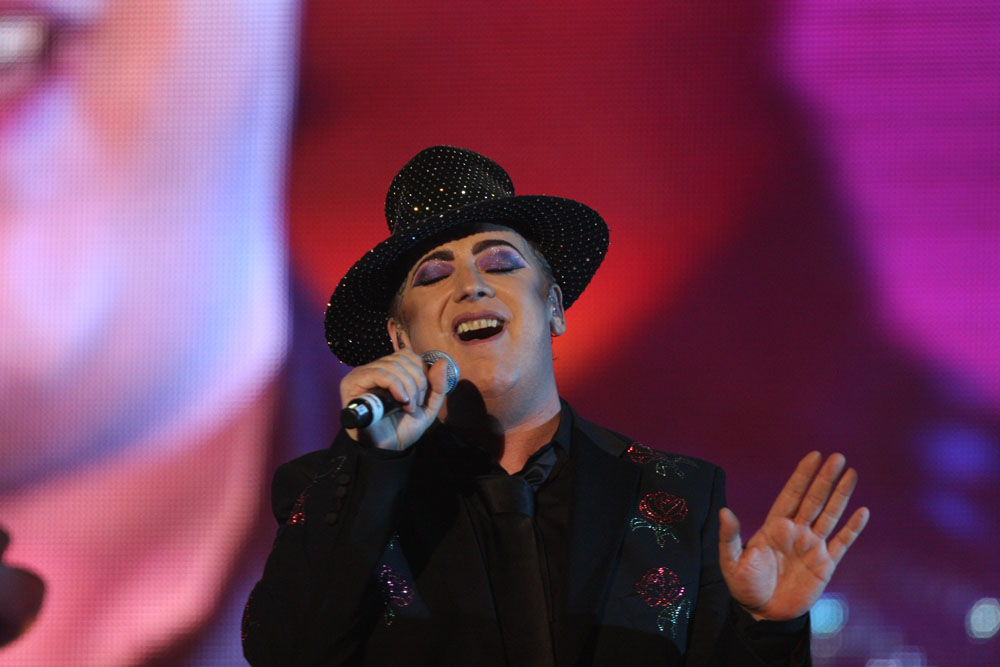 Sydney’s biggest New Year’s Eve party: Jamiroquai, Culture Club and Pet Shop Boys, as well as Australia’s very own Guy Sebastian, Pseudo Echo and Lyndsey Ollard Sydney Resolution Concert Series is thrilled to announce Sydney’s biggest New Year’s Eve party, which will be staged at Sydney’s Glebe Island overlooking the iconic Sydney Harbour on Saturday December 31st 2011. The inaugural Sydney Resolution Concert Series will feature international superstars including Jamiroquai, Culture Club and Pet Shop Boys, as well as Australia’s very own Guy Sebastian, Pseudo Echo and Lyndsey Ollard.